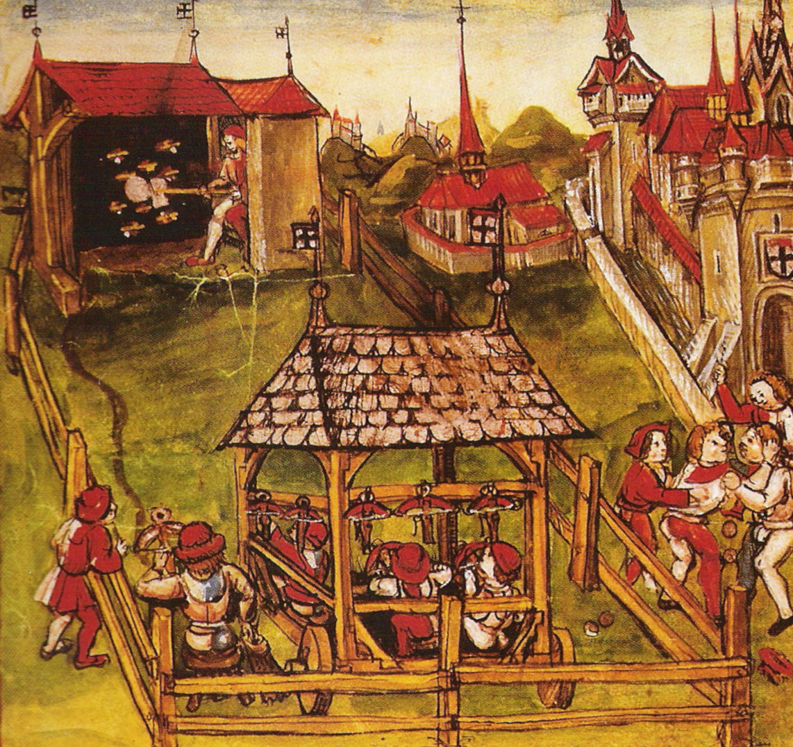 On the right, one can see some players fighting each others. This often happened during these celebrations.